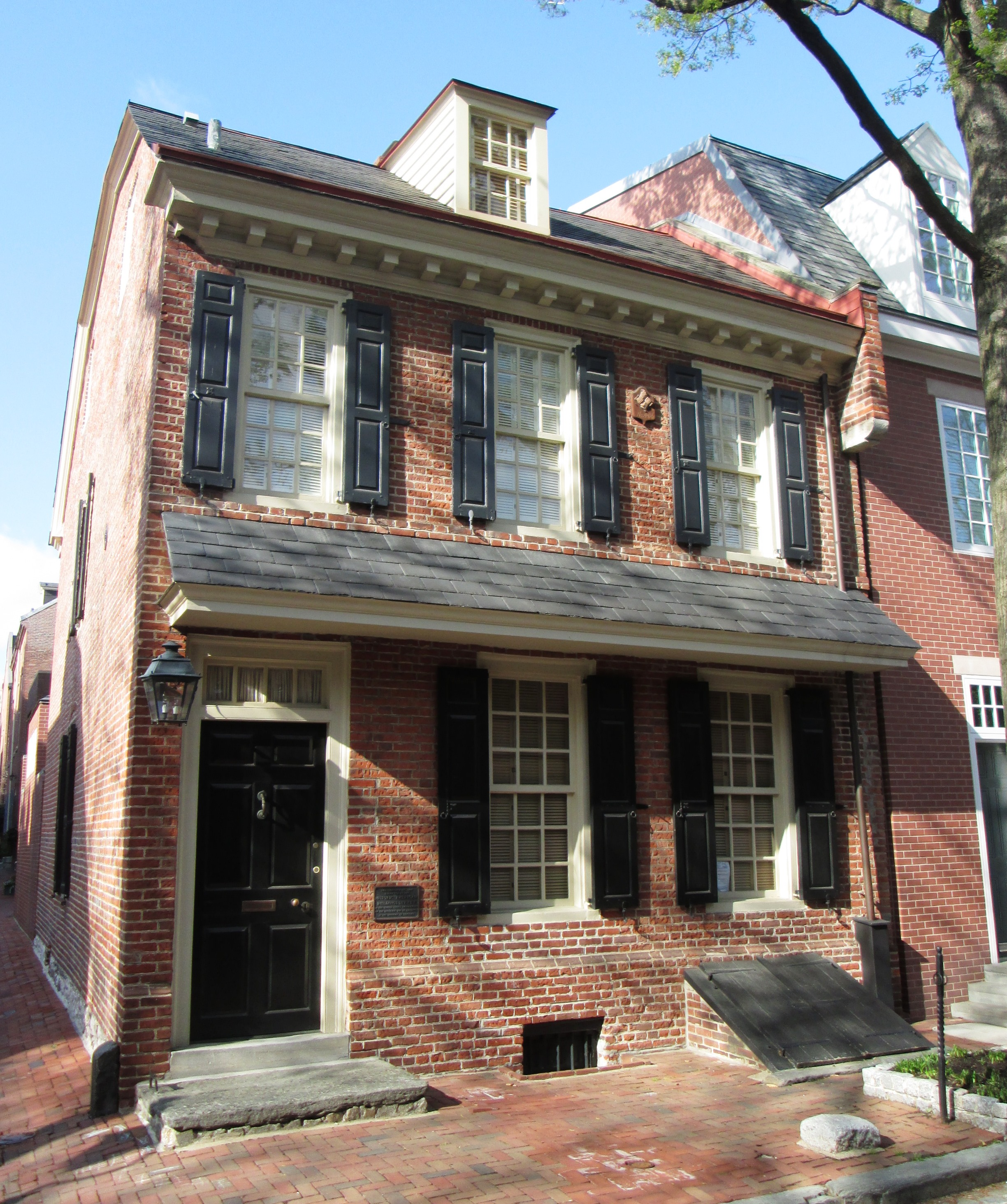 The Rhoads-Barclay House 217 Delancey Street at the corner of S. Philip Street in the Society Hill neighborhood of Philadelphia dates from the time of Swedish settlement in the area. It was built in 1774 for Samuel Rhoads, a builder and mayor of Philadelphia, and was restored in 1960. 9Source: Society Hill and the Old City. See also: HABS on the Library of Congress site])